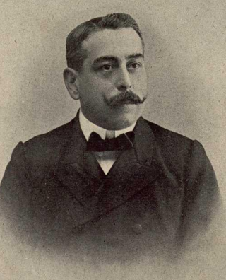 Silvestre Fernandez de la Somera